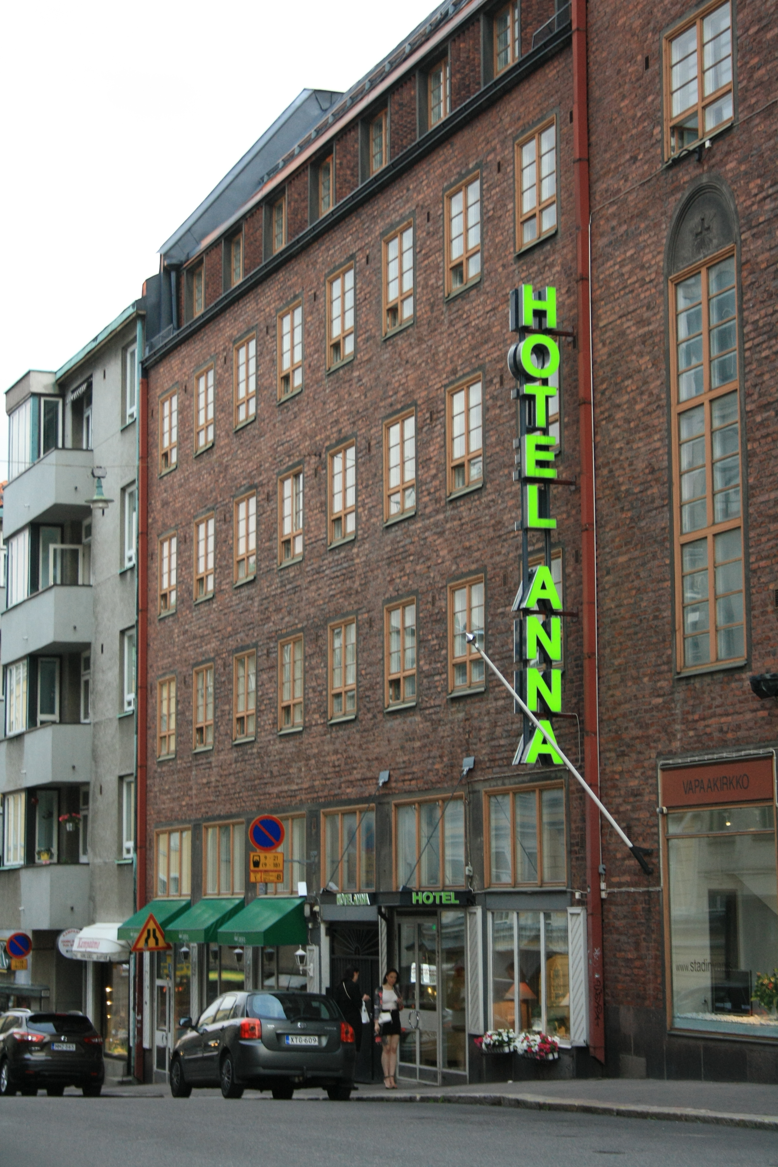 Hotel Anna in Helsinki